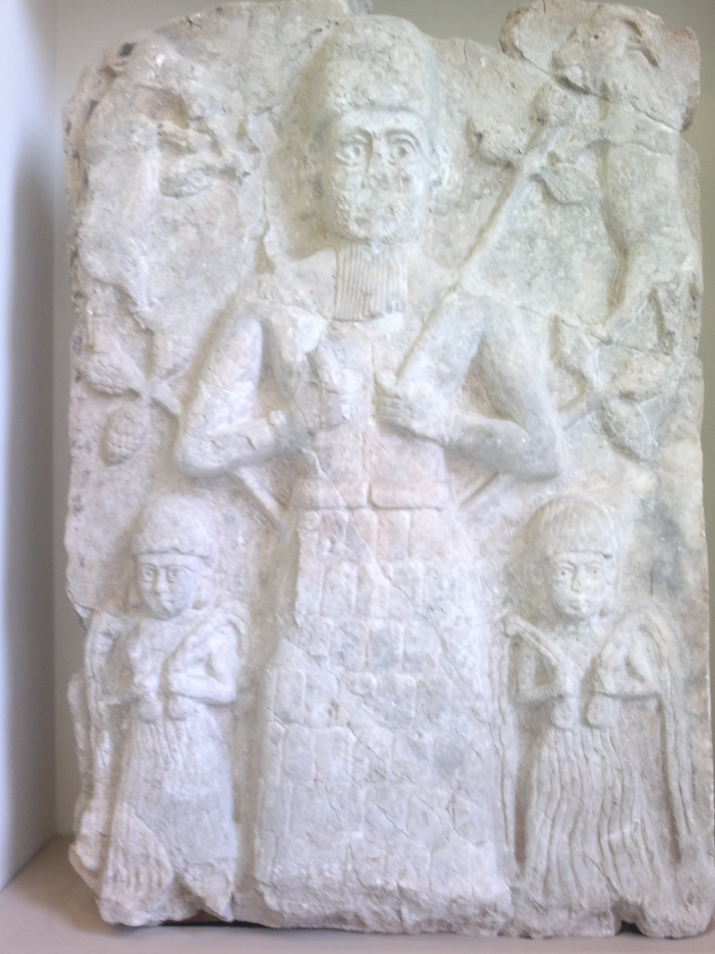 Cult relief of a mountain god. Ashur, Ist half of the 2nd millenium BC. Gypsum, height 136 cm. Pargamon Museum, Berlin